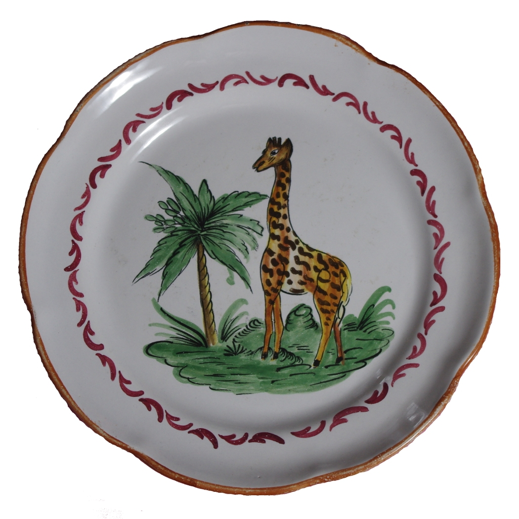 18th century faience plate showing a giraffe brought to France.